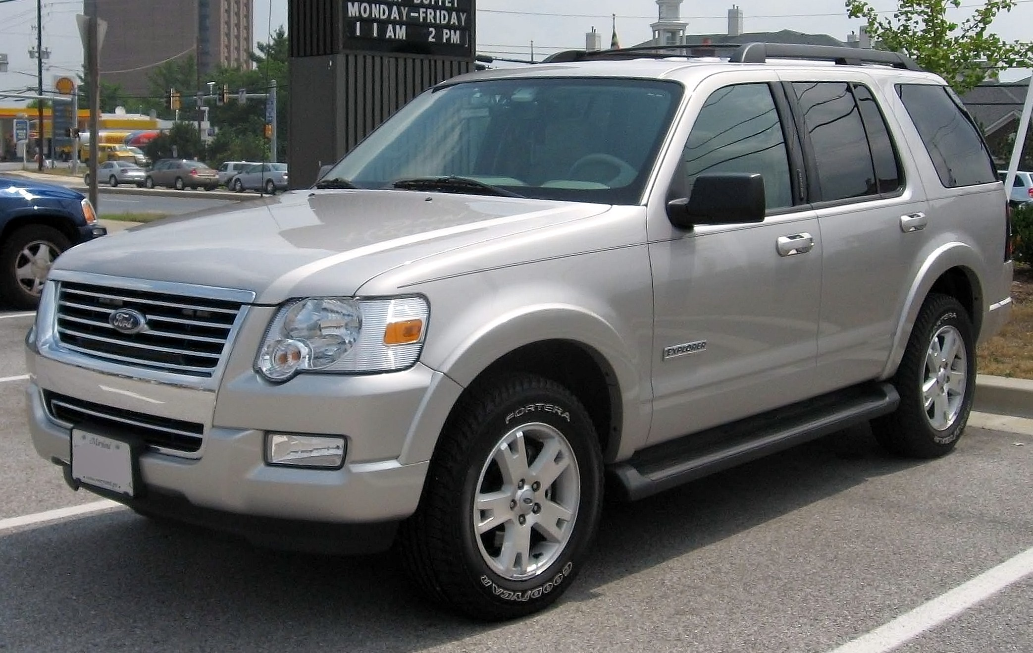 2006-2007 Ford Explorer photographed in USA.